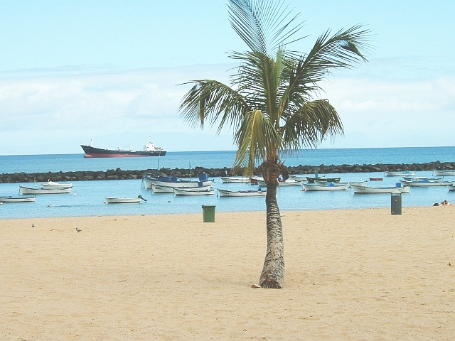 selbst erstellt am 20.4.05 Lizenz : GFDL Image: San Andrés on Tenerife, the beach with the fisherman´s boats